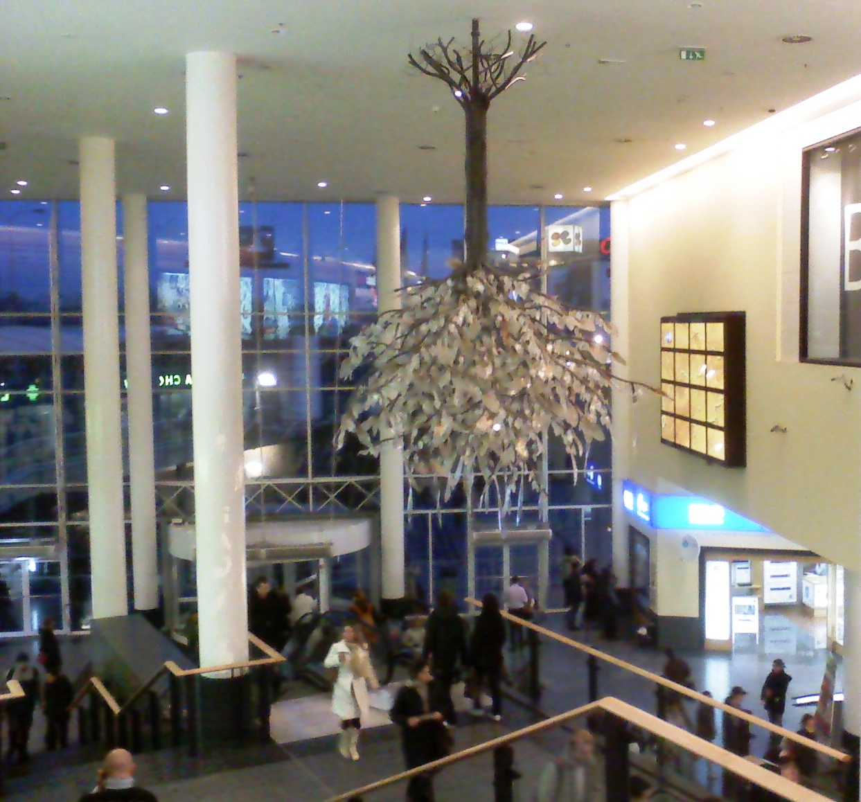 Decoration "upside-down tree" designed by Borek Sipek in Chodov Shopping Center in Prague, The Czech Republic